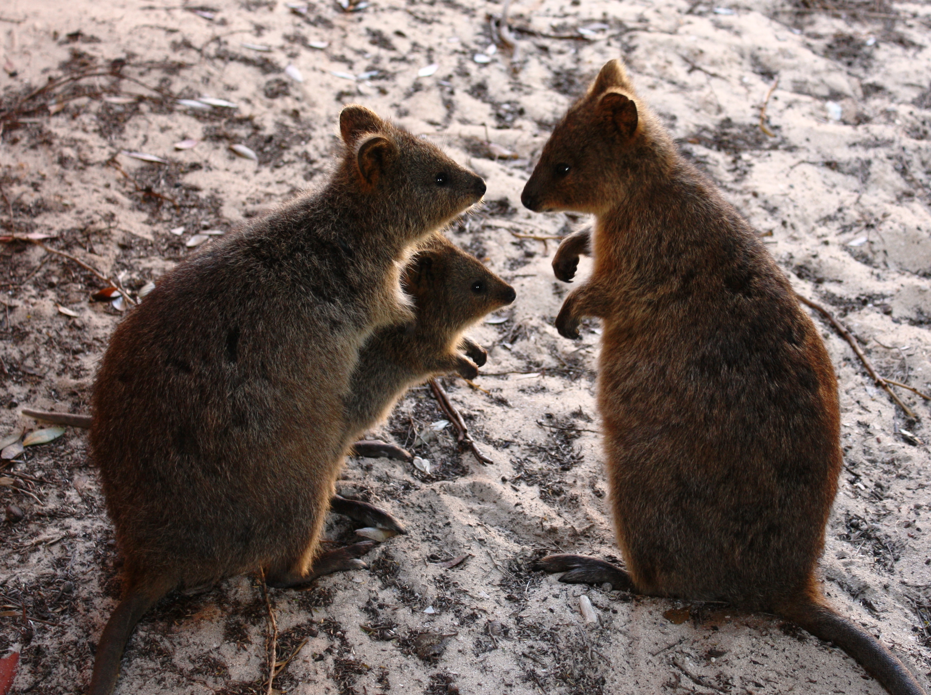 Three quokkas—two adults and a juvenile, presumably a family unit—interact at Bathurst, Rottnest Island, Western Australia.